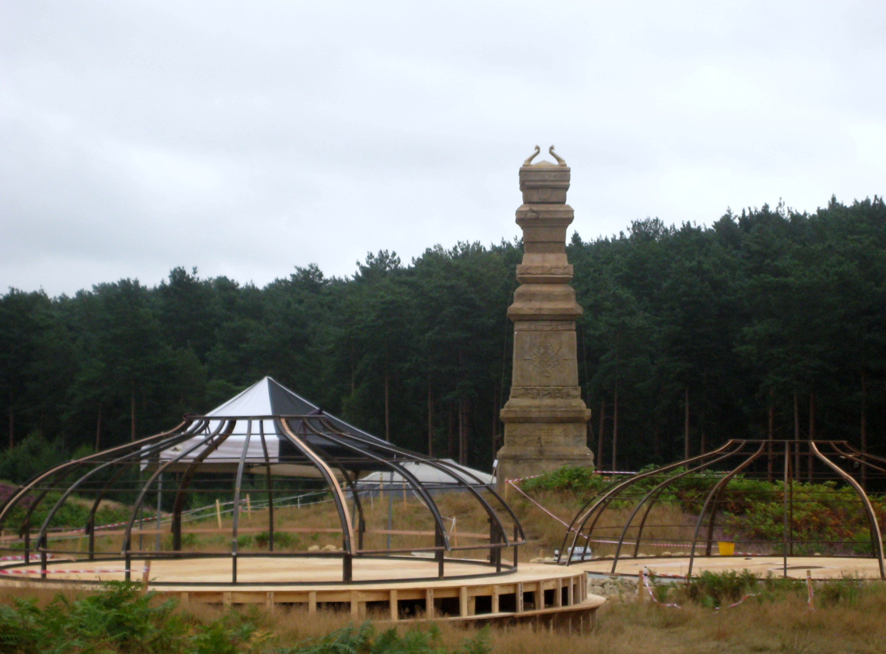 Film set for "Thursday Mourning" (working title for Thor: The Dark World) in the Bourne Wood, Farnham, Surrey, showing a village of yurts and stone towers in a fictional realm. The location will be used for a battle between two kingdoms, with Thor arriving to save the day.